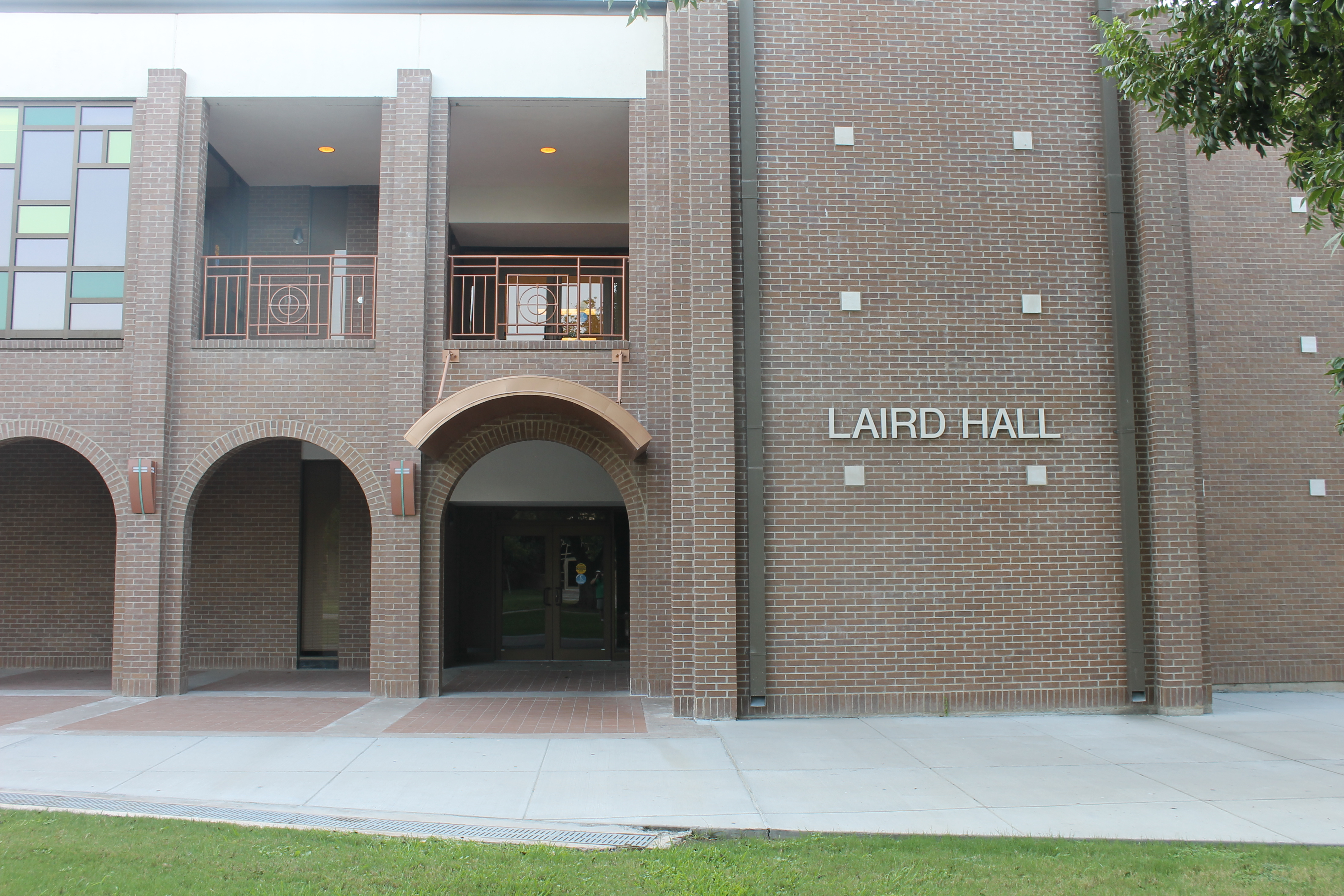 Laird Hall at Laredo (TX) Community College is named for former president Ray A. Laird.